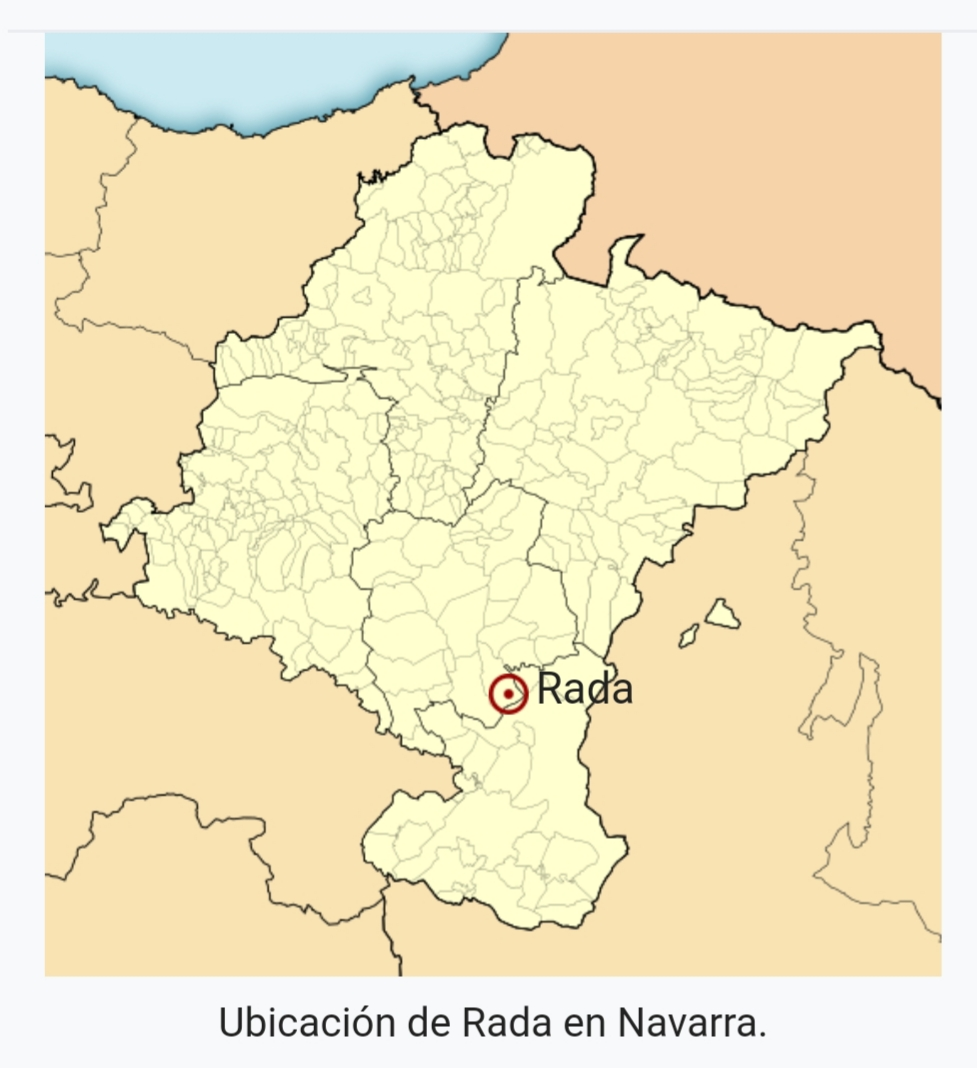 Localización